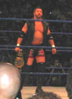 Cropped version of Image:Helms London Lashley.jpg